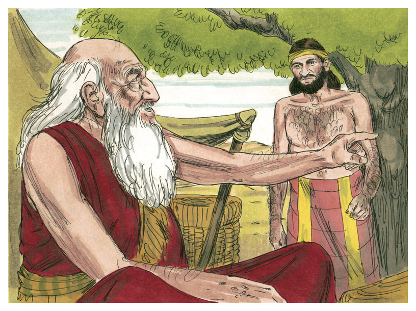 Biblical illustration of Book of Genesis Chapter 24